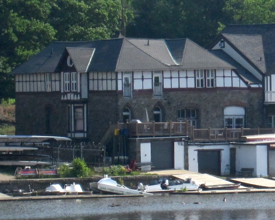 Crescent Boat Club #5 Boathouse Row, Philadelphia, PA (1871) More images